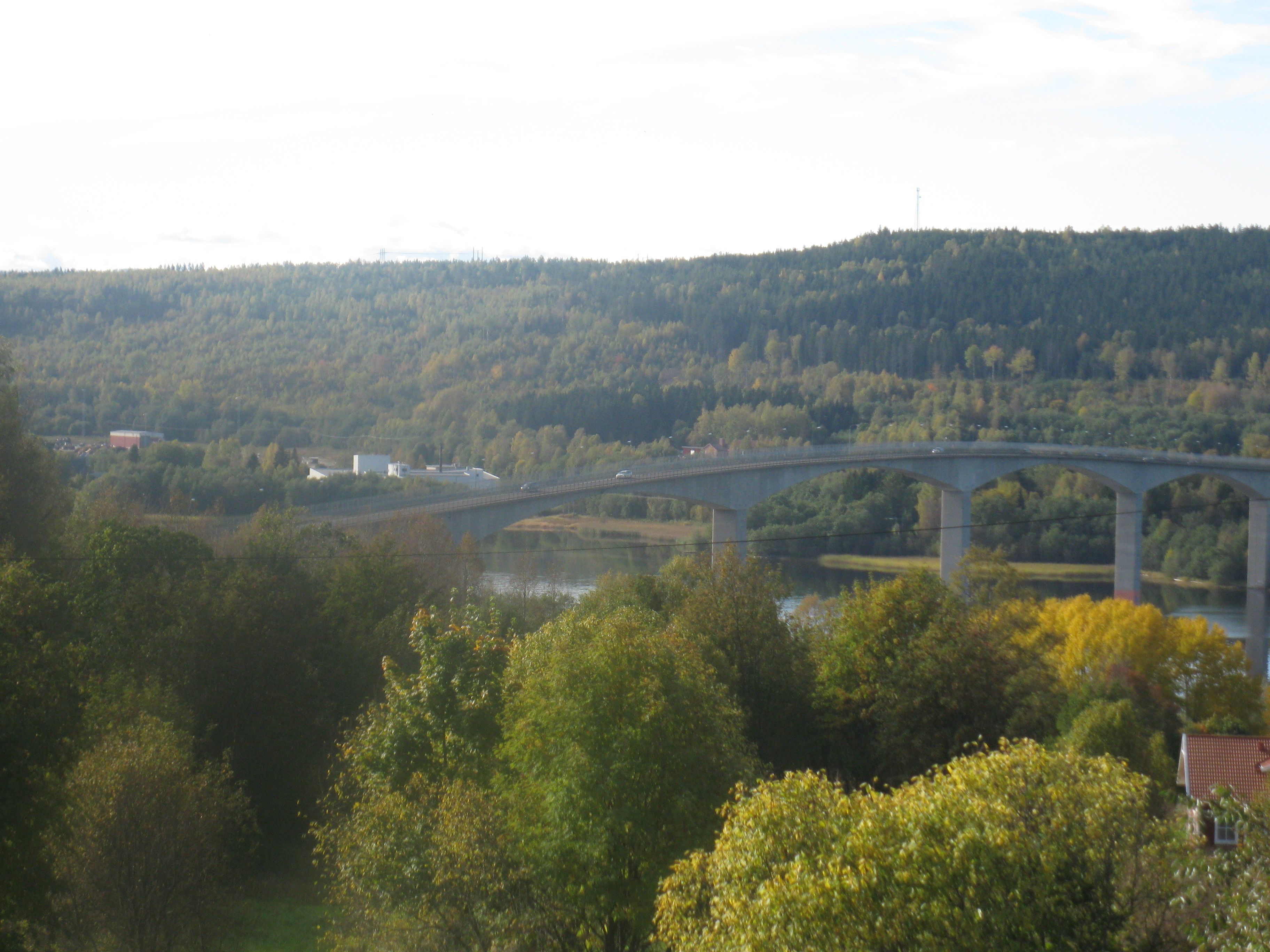 Bridge connecting the island of Alnö with the mainland (Sweden)